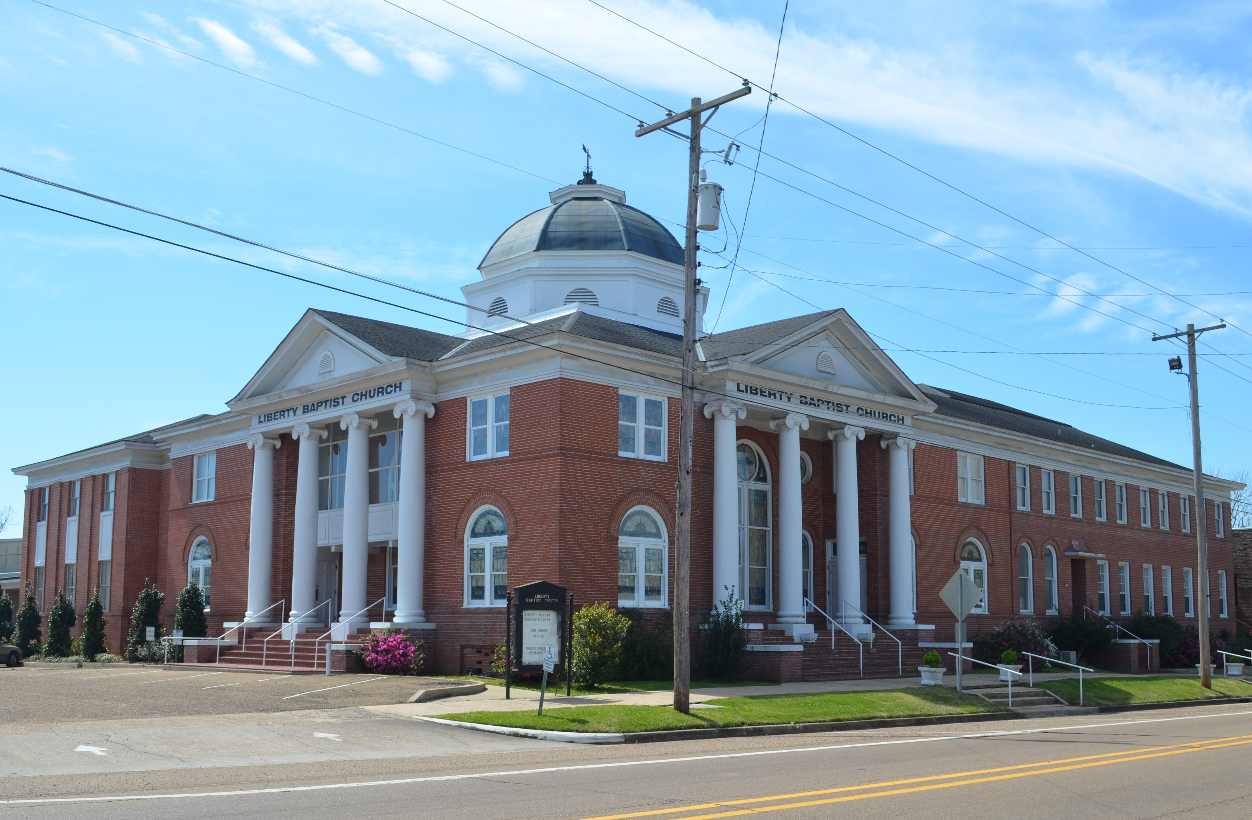 Liberty Baptist Church, Main Street, Liberty (Amite County), Mississippi